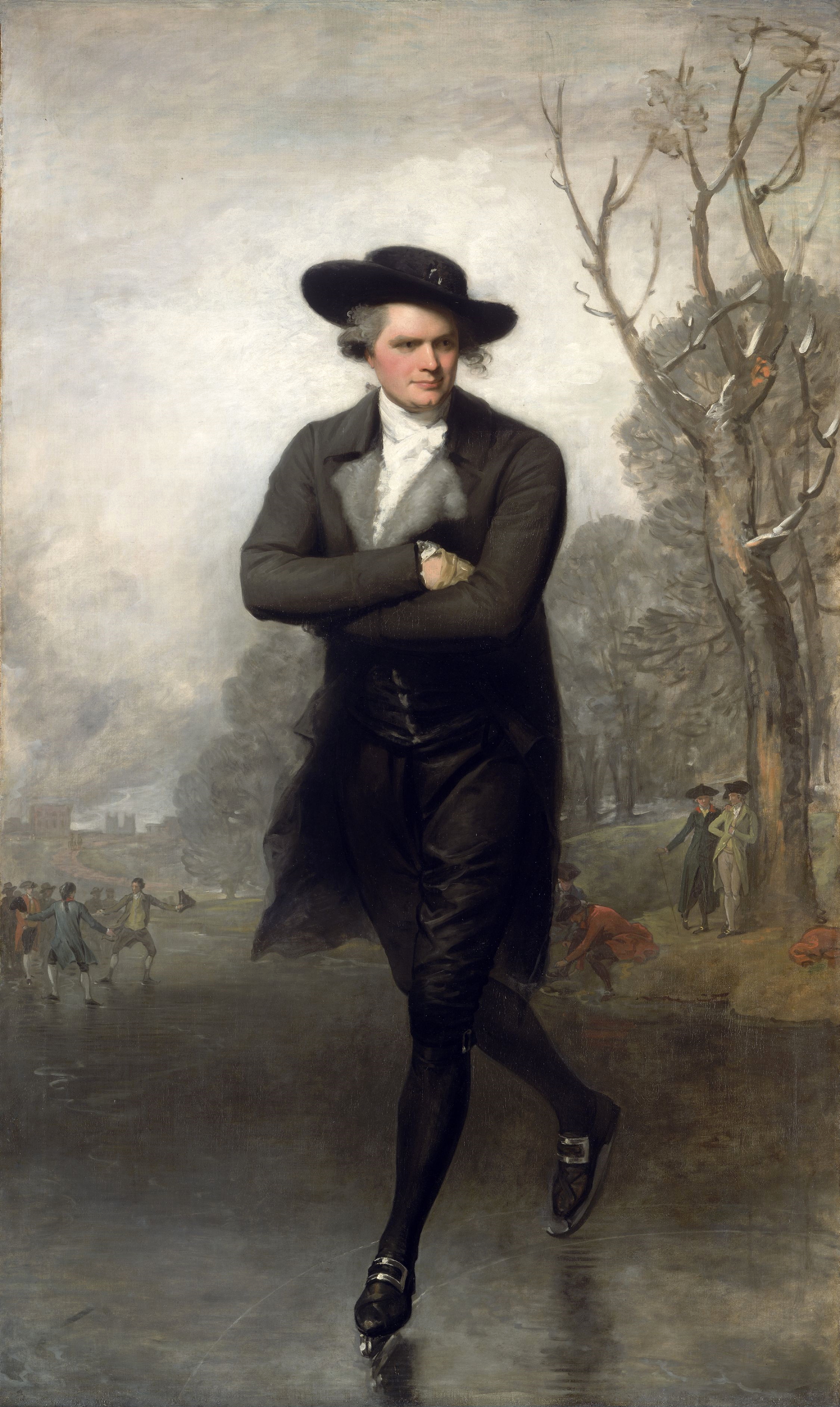 The Skater (Portrait of William Grant) [National Gallery of Art, Washington, D. C., online collection museum webpage] William Grant